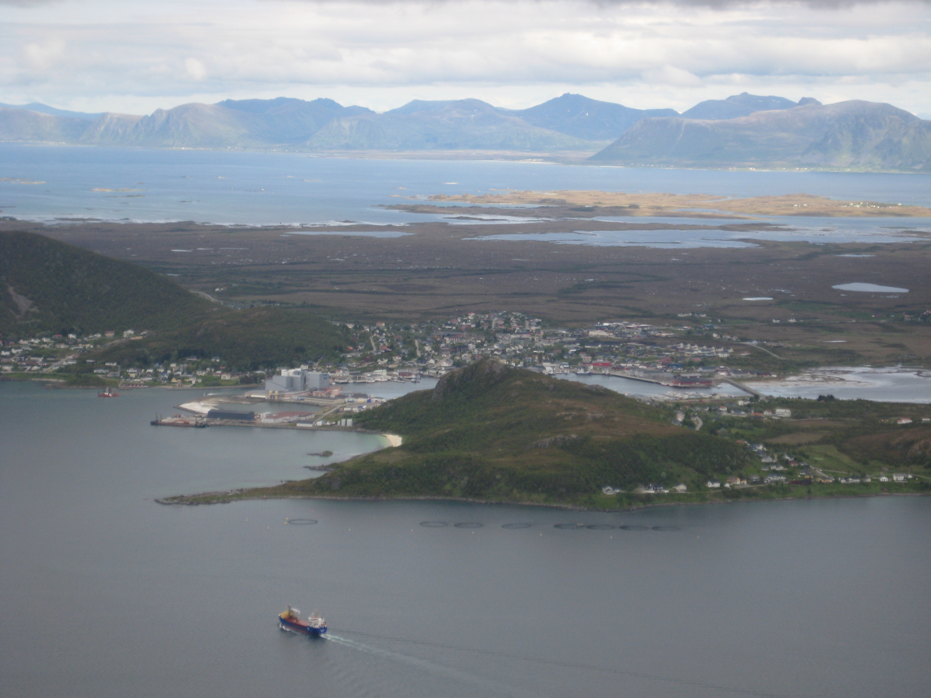 View of Myre from Øksnesheia on the island of Skogsøya